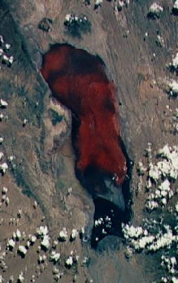 STS-55 Earth observation taken aboard Columbia, Orbiter Vehicle (OV) 102, shows Lake Natron in Tansania, in the 35-mile-wide East African Rift Valley. This lake is surrounded by sodium carbonate volcanoes. Through erosion, these salts of volcanic origin are transported into the rift valley lakes. The various shades of bright red reflecting from the lake result from the water chemistry and biotic blooms. The white spots in the lakebed are drying soda salts. The depth and circulation of the water in the southern end of the lake cause it to appear dark blue rather than bright red. In the repeated photographs of this lake from orbit, we have seen the extent and intensity of its colors fluctuate seasonally. In this photograph, the biotic activity appears to be at a peak. Such a large extent of red-colored water was not present in the photos taken from STS-56, just a few days before (04-10-93).